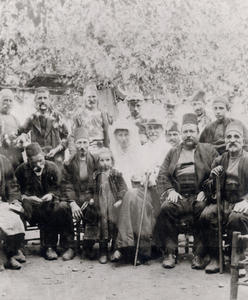 Periklis Hazilazarou